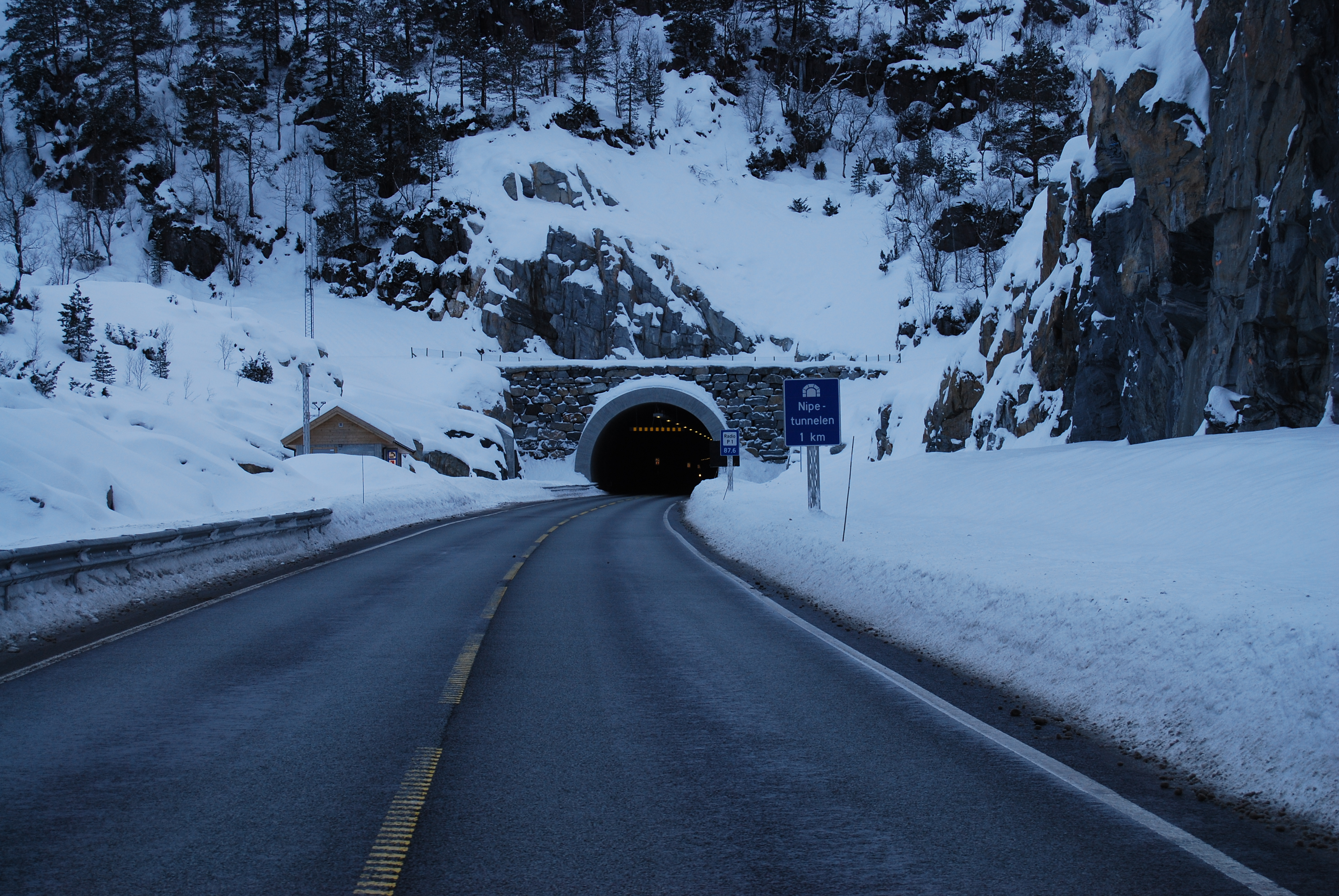 Nipetunnelen on E39 in Romarheimsdalen in Hordaland, Norway.